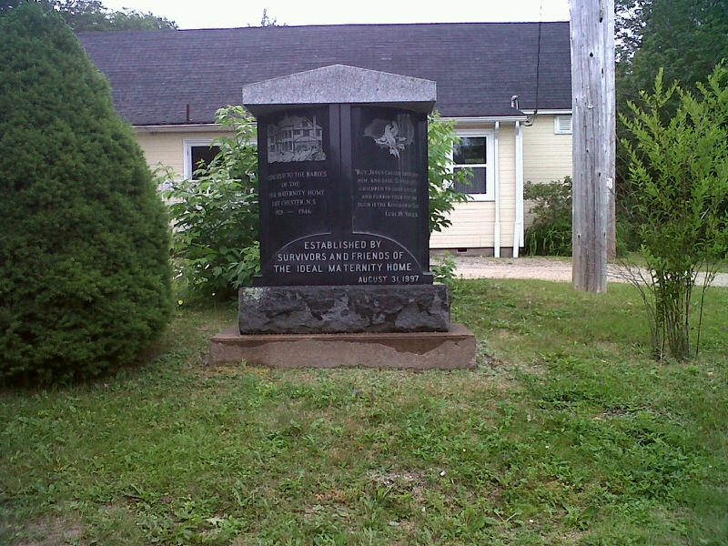 Butterbox Babies Monument East Chester, Nova Scotia